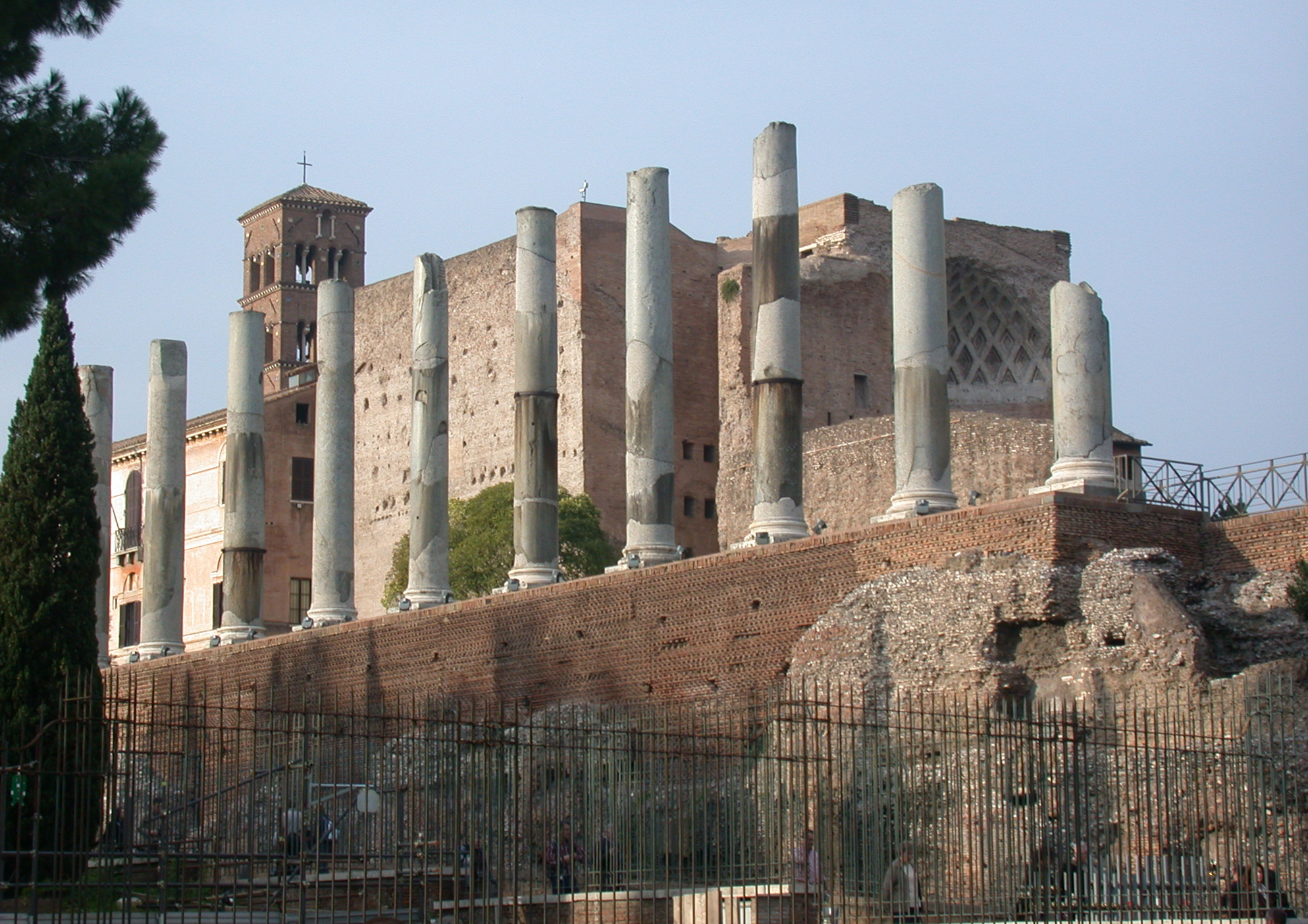 Rome, Venus and Rome temple. Personal photo (november 2005) by MM in it.wiki